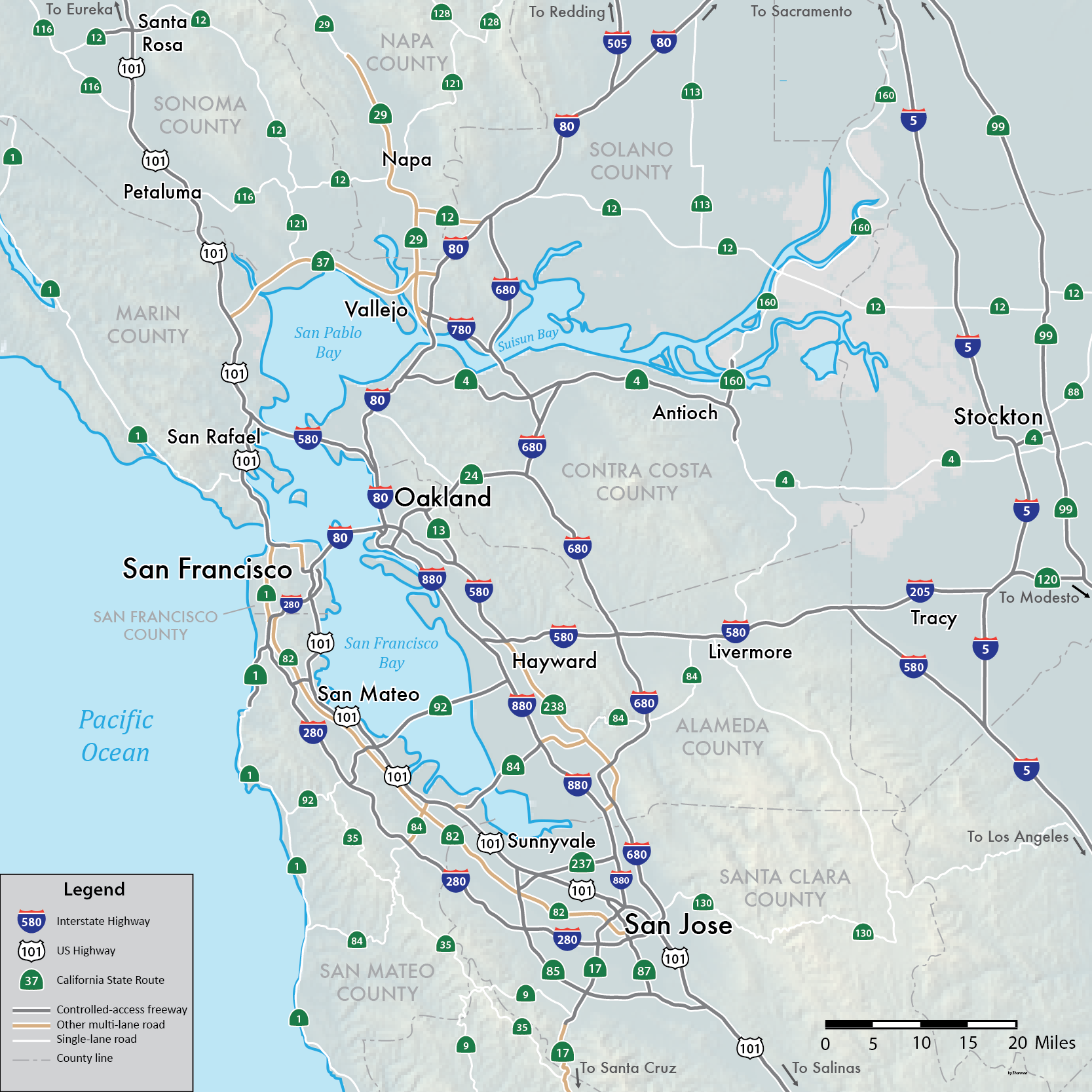 Map showing freeways and other major roads in the San Francisco Bay Area, California, USA. Shaded relief from US Geological Survey.